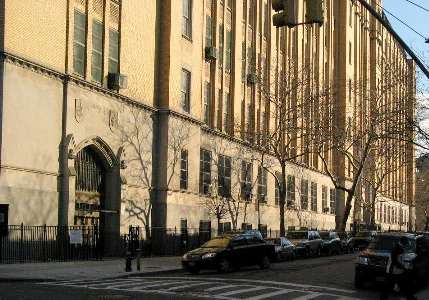 Entrance to the Brooklyn Tech. H.S.